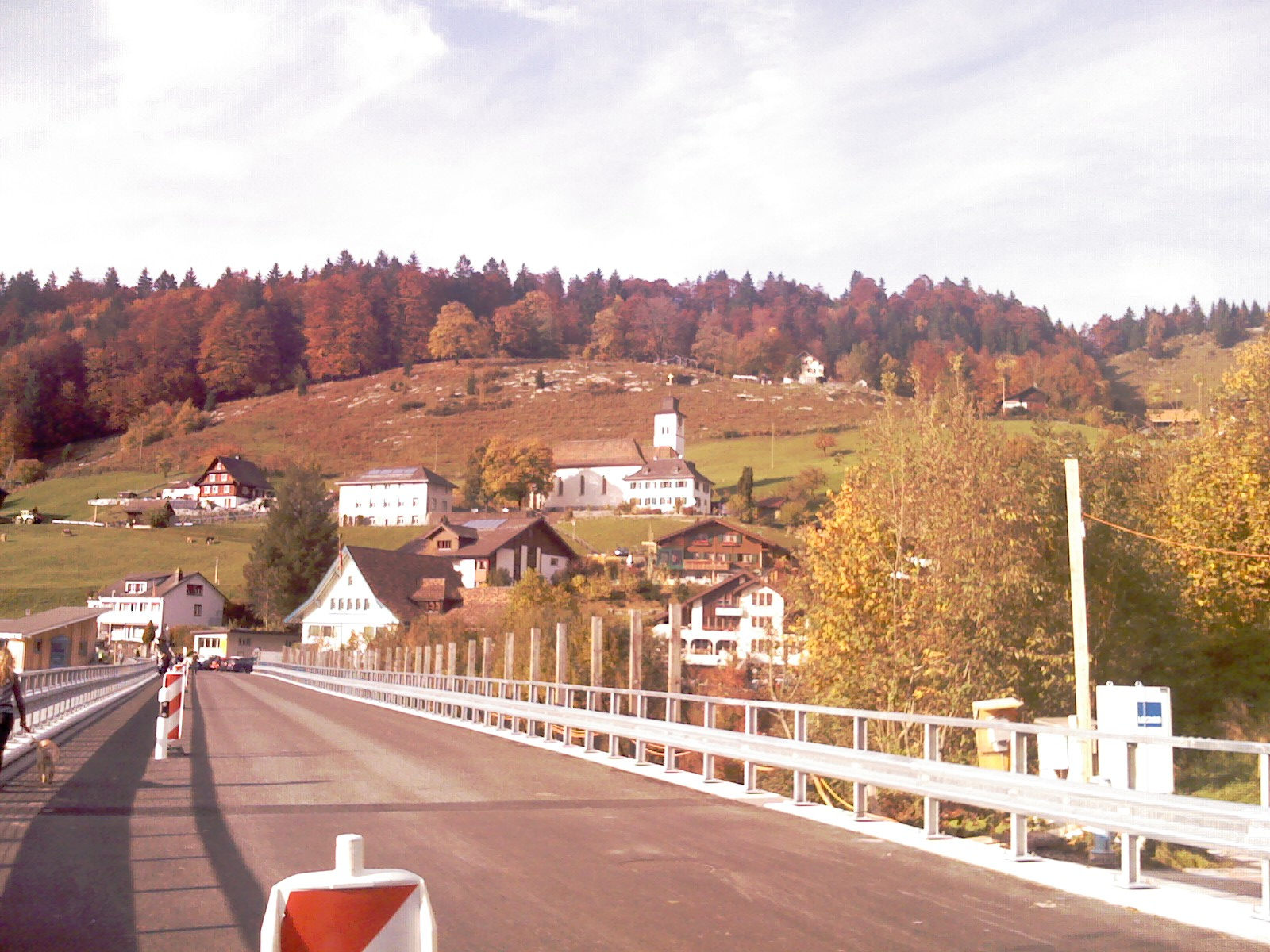 Church of Innerthal, canton of Schwyz, SwitzerlandEsperanto: Preĝejo de Innerthal, Kantono Ŝvico, Svislando